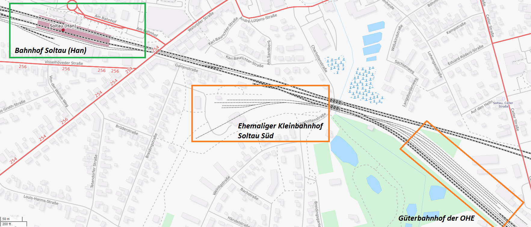 Map of the area around the train stations in Soltau, Germany